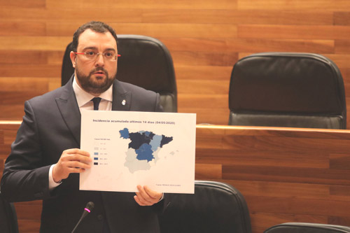 President Adrián Barbón during a monographic plenary session on Covid-19 at the General Junta of the Principality of Asturias shows a map tha represents the positive evolution of Asturias with respect to the rest of the autonomous communities